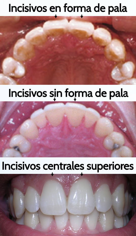 Los dientes incisivos en forma de pala se encuentran principalmente en amerindios y asiáticos.